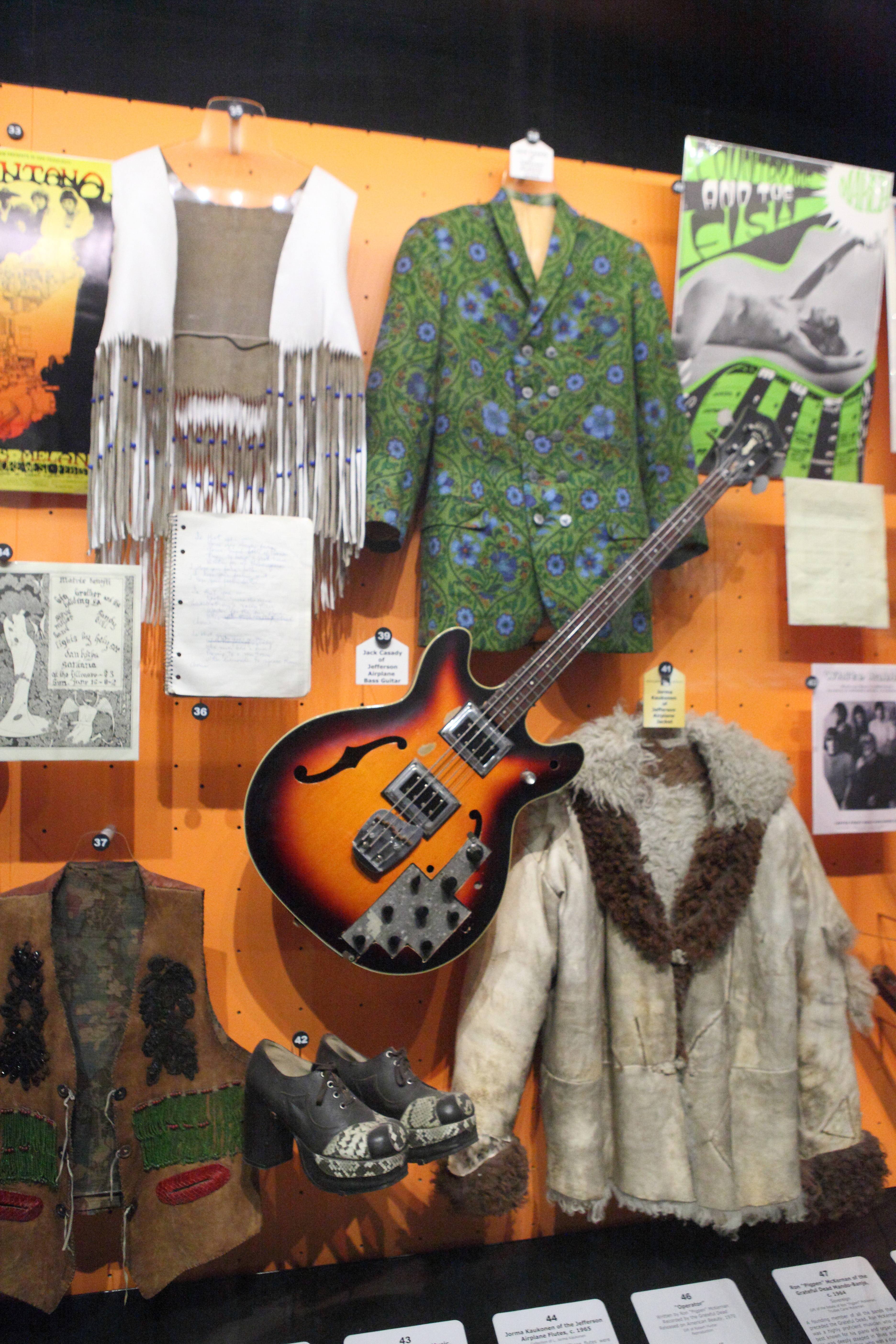 1960s artifacts at the Rock and Roll Hall of Fame in Cleveland, Ohio. Flickr Tags: Rock and Roll Hall of Fame Cleveland Ohio 1960s guitar outfit jacket clothing clothes. from Flickr album "Rock and Roll Hall of Fame" by Sam Howzit